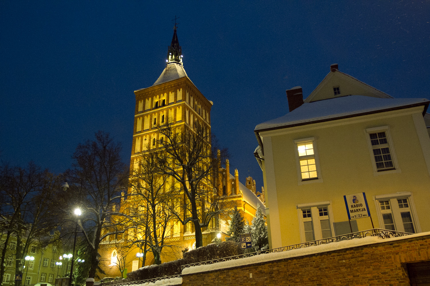 The Cathedral Church in Olsztyn